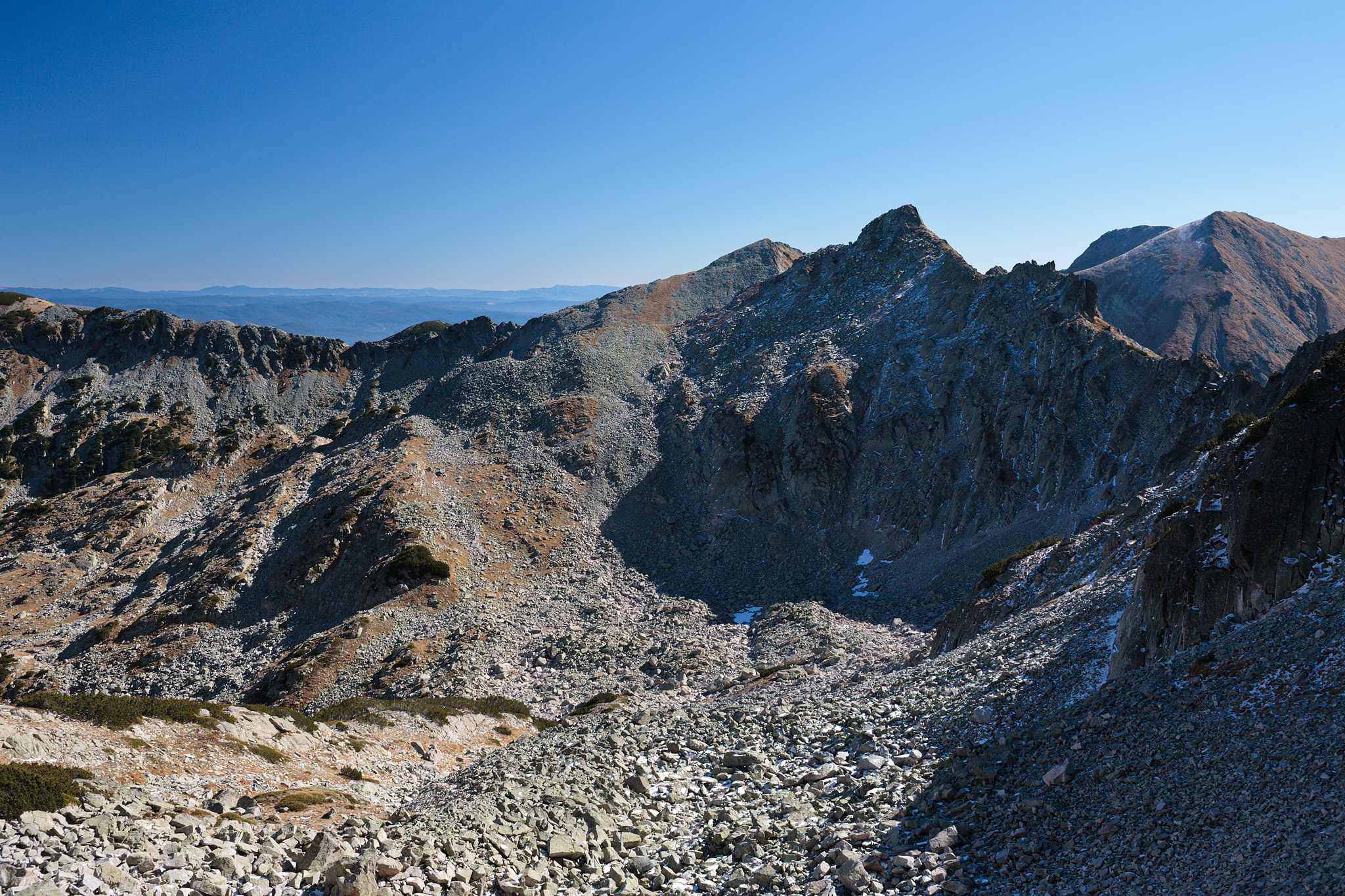 Demirkapiiski Chuki peak in Pirin mountains, Bulgaria